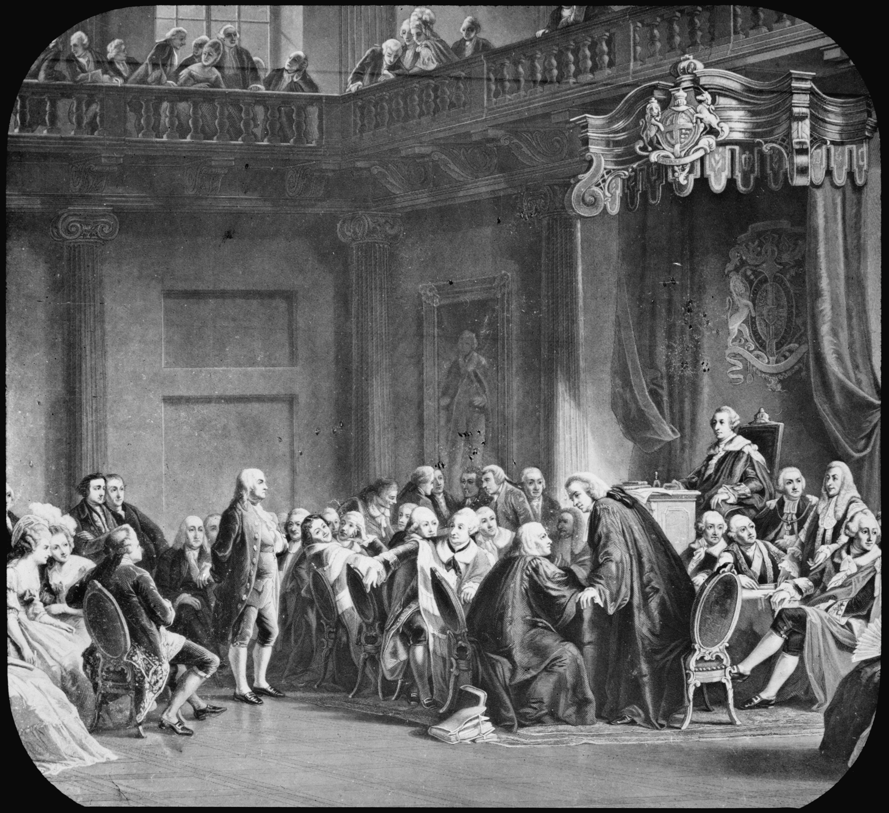 General notes: Engraving from painting by C. Schussele